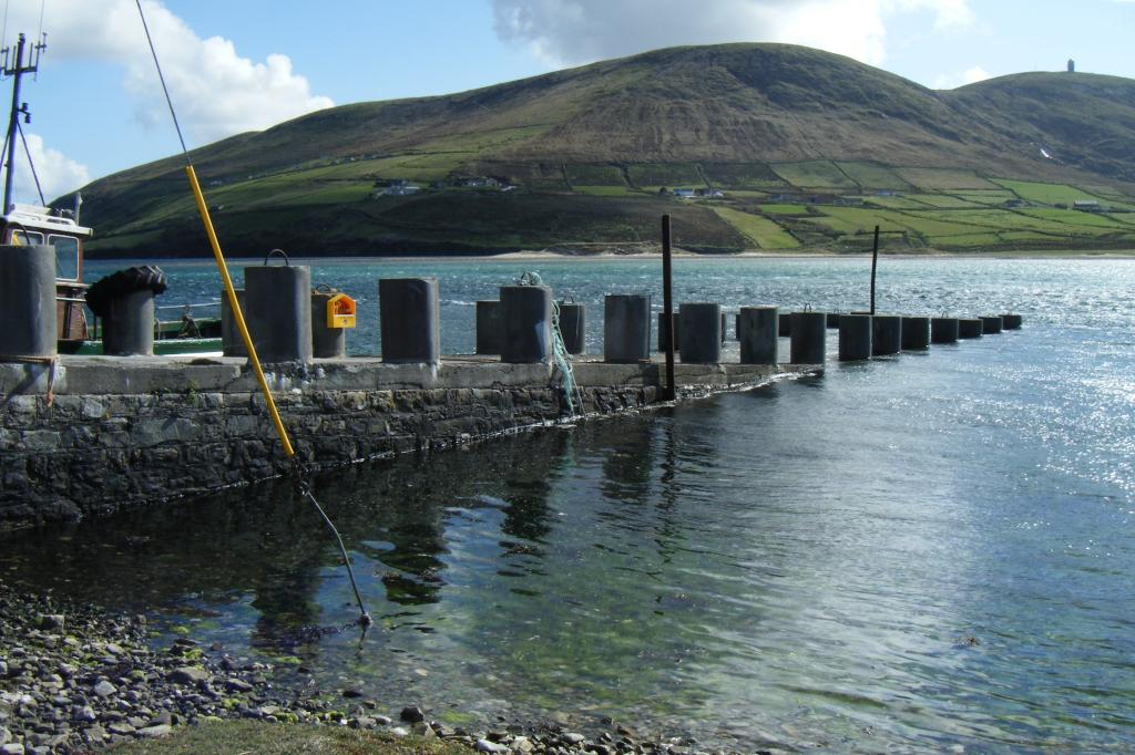 Ferry Pier in Rossport, County Mayo, Ireland.